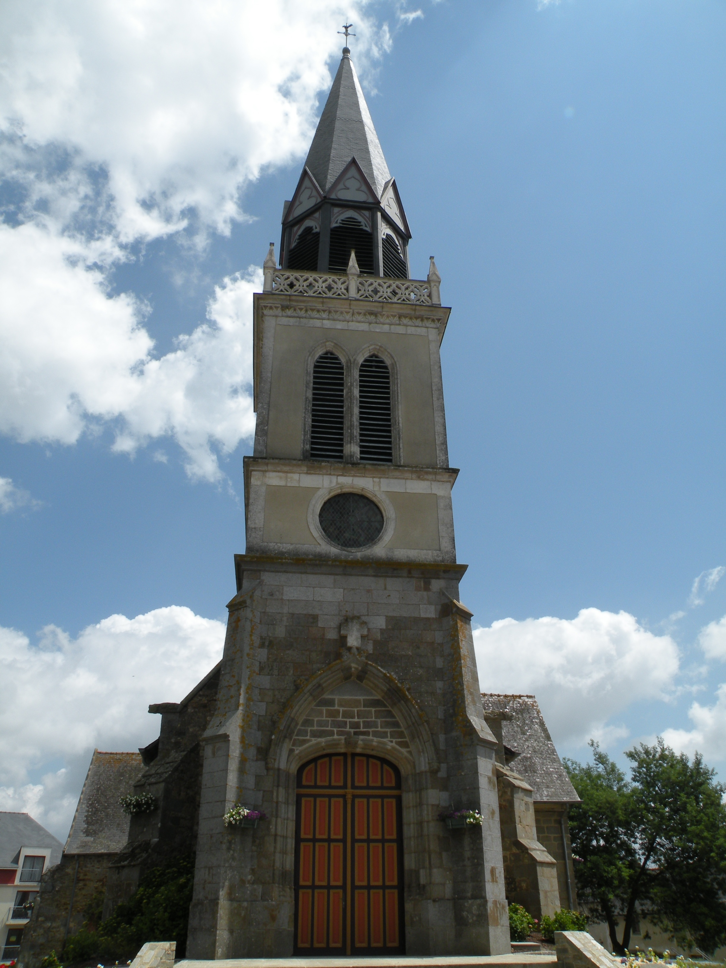 Church of Gévezé.